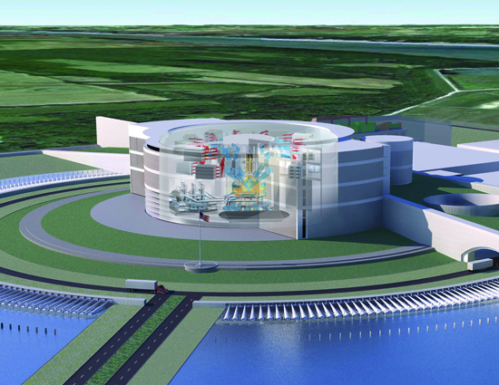 General layout of the LIFE fusion power plant. The fusion reactor and lasers that drive it are in the large cylindrical building in the center, which is shown in a cutaway fashion. The two "wings" contain the electrical generators on one side and the maintenance area on the other. The smaller cylindrical building contains the tritium recovery plant. To the right, in the lower buildings, is the active cooling system.